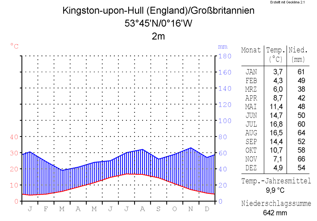 climate chart in the format by Walter and Lieth, metric, °Celsisus and millimeters, made with Geoklima 2.1